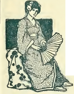 Picture taken form the article Practical Metaphysics in the magazine Herald of the Golden Age V.10, No. 4, October 1905 p.69 Edited by Sidney H. Beard